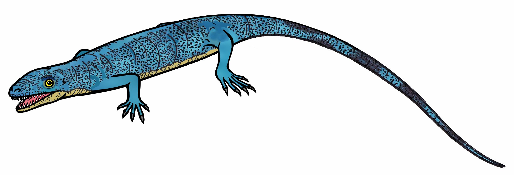 Reconstruction of the Anapsidan reptile Millerosaurus pricei (Watson, 1957), a member of the family Millerettidae. The shape of the body and head is based on illustrations found on p. 115 in the third edition of Michael J. Benton's book Vertebrate Paleontology (see HERE), and a skeletal reconstruction found HERE. Here, it's may restorated with the snout a little bit to short, but otherwise it's hopefully accurate enough.